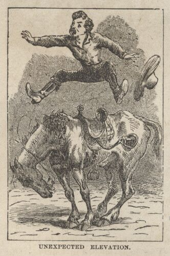 Illustrations de Roughing It, 1872.